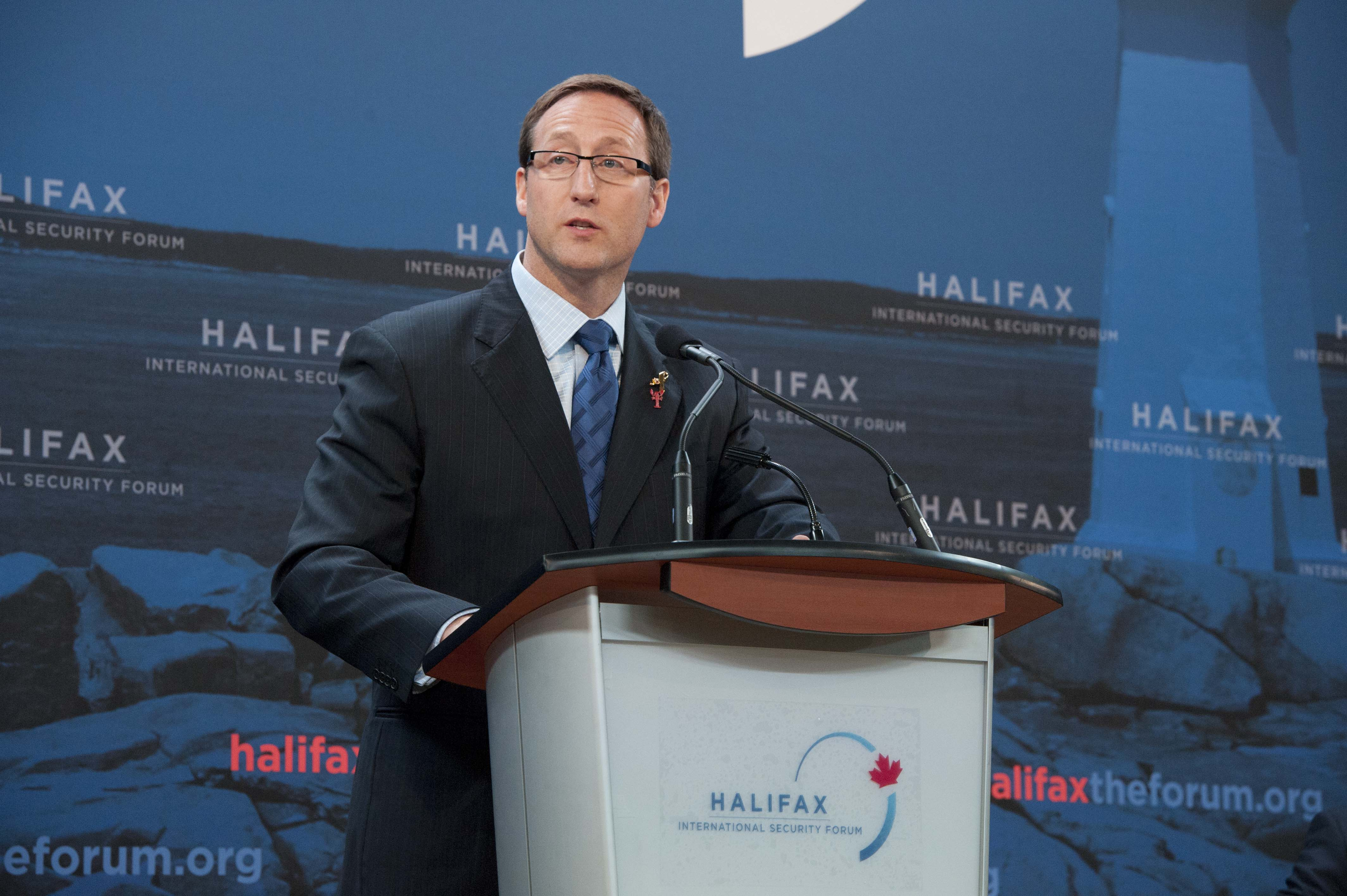 Minister of Defense Peter MacKay of Canada introduces the American Secretary of Defense Leon E. Panetta at the Halifax International Security Forum on November 18, 2011 in Halifax, Nova Scotia. Secretary Panetta stressed the importance of international alliances in helping to combat terrorist organizations worldwide.